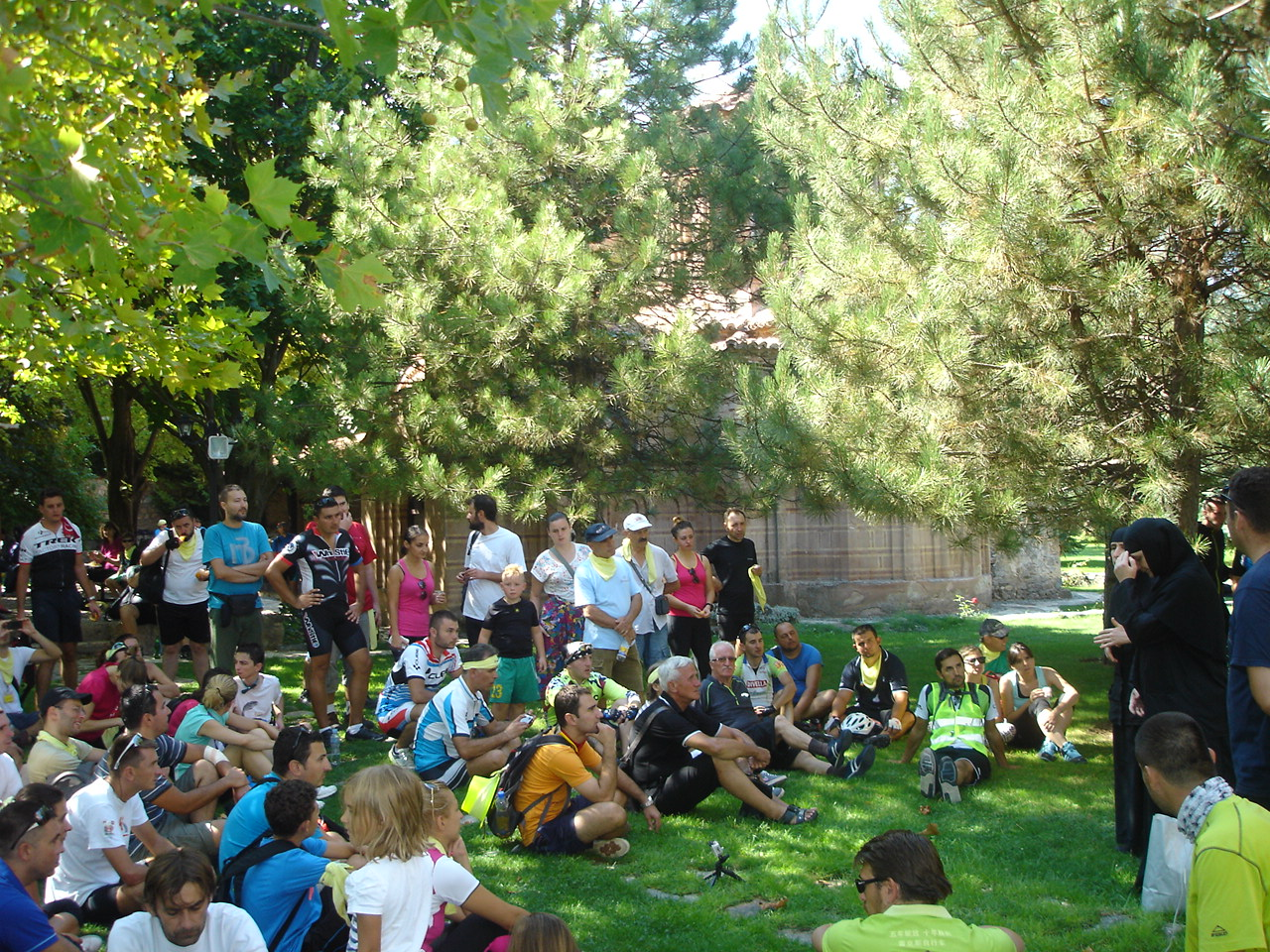 Cycling tour around Strumica, Macedonia